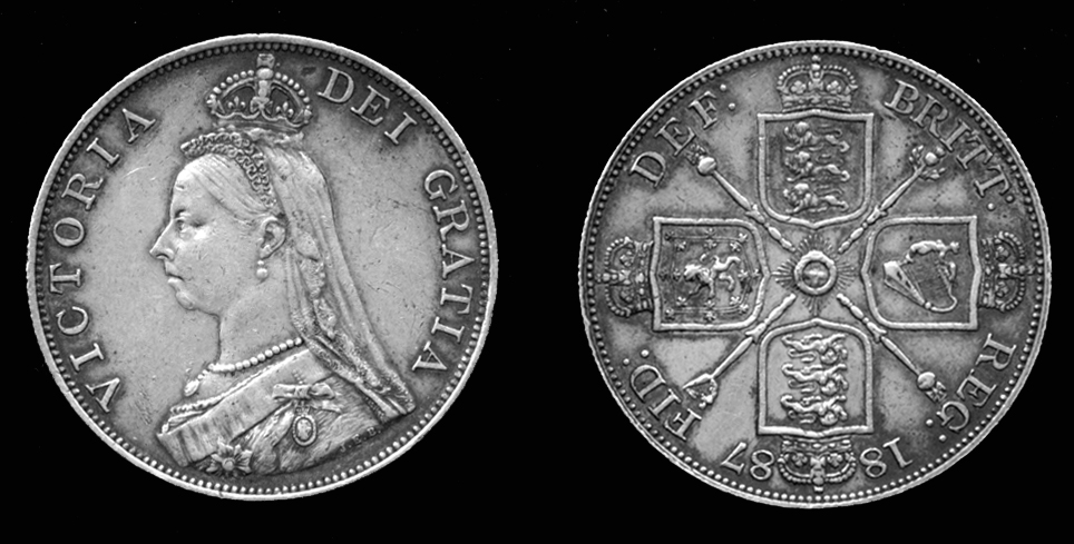 Silver double-florin of Queen Victoria, dated 1887, with the Windsor Crest on the reverse. Licensing Coin: Image